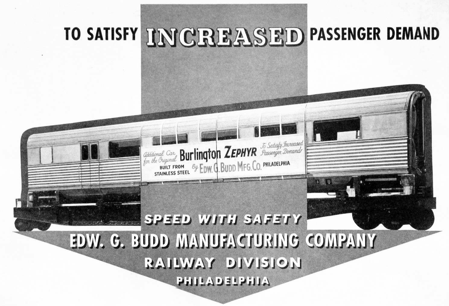 Edward Budd Company ad with a photo of the fourth car for the Pioneer Zephyr. Burlington ordered the car because of increased demand for seating on the original train. This car was produced at Budd while the company was building the Mark Twain Zephyr for the Burlington.